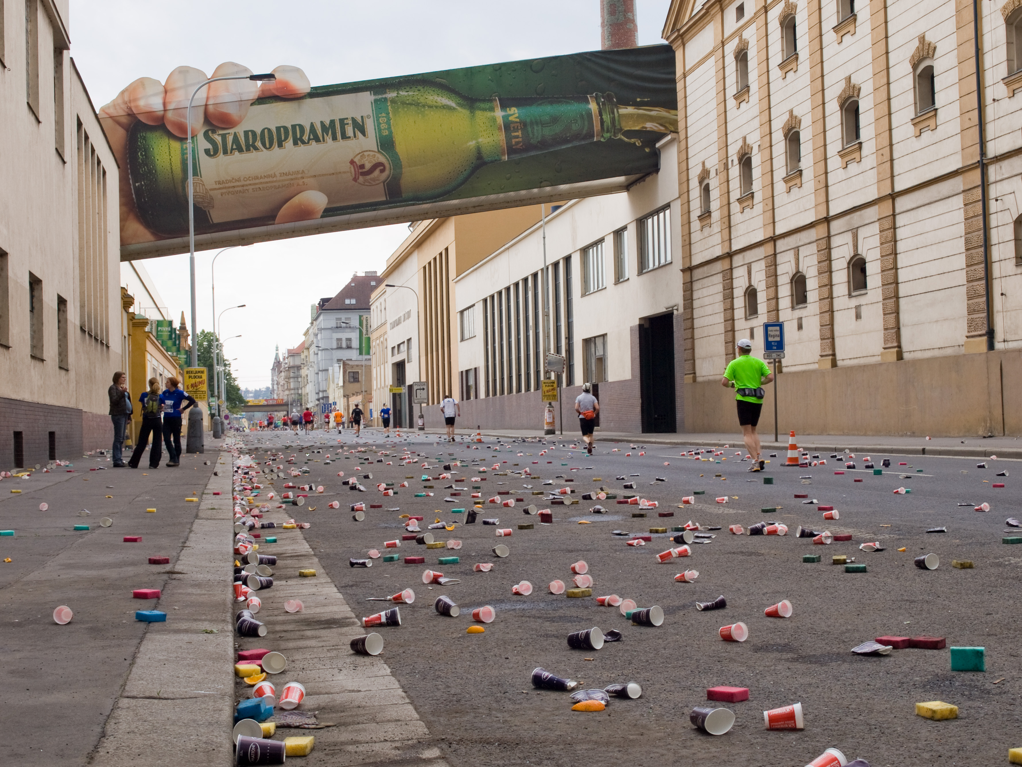 Vltavská street, cca 28 km, Prague International Marathon 2010